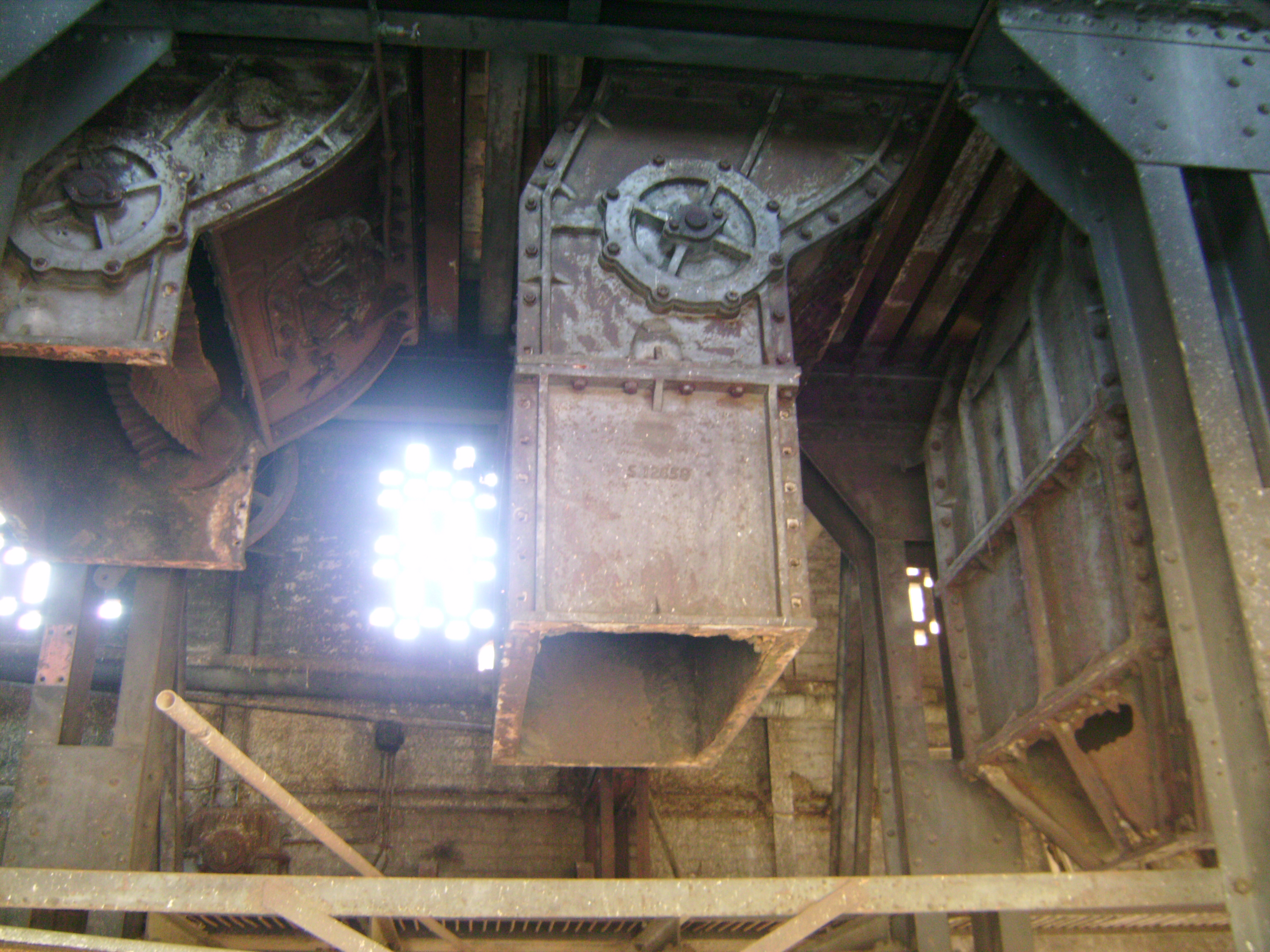 Coal shutes in the main hall of the vertical retort building. Most complete being on the right. A total of six are located within the building. Taken March 2011